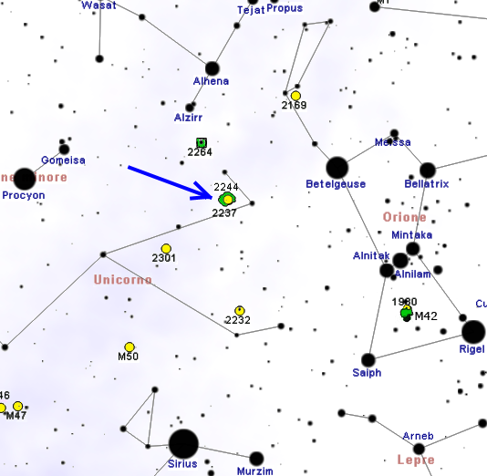 Rosette Nebula